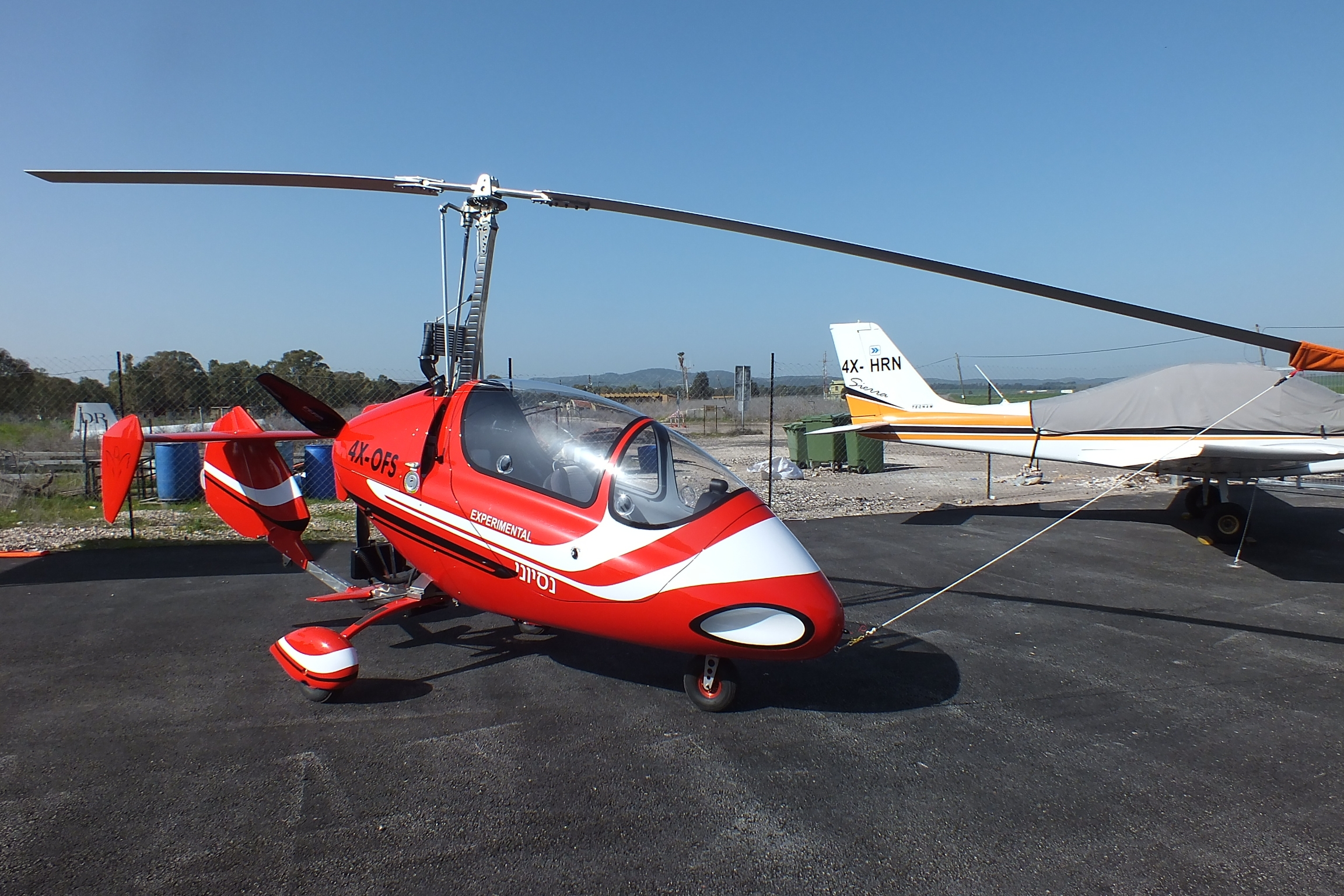 4X-OFS at Megido Airfield